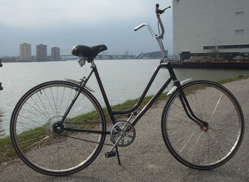 The bike as we had in 1975 as we ride to school